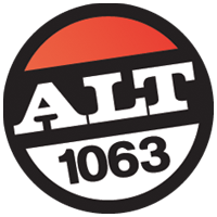 Current KDXA logo (2013).